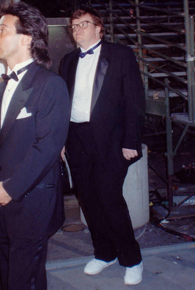 Michael Moore at the 62nd Annual Academy Awards on March 26th 1990